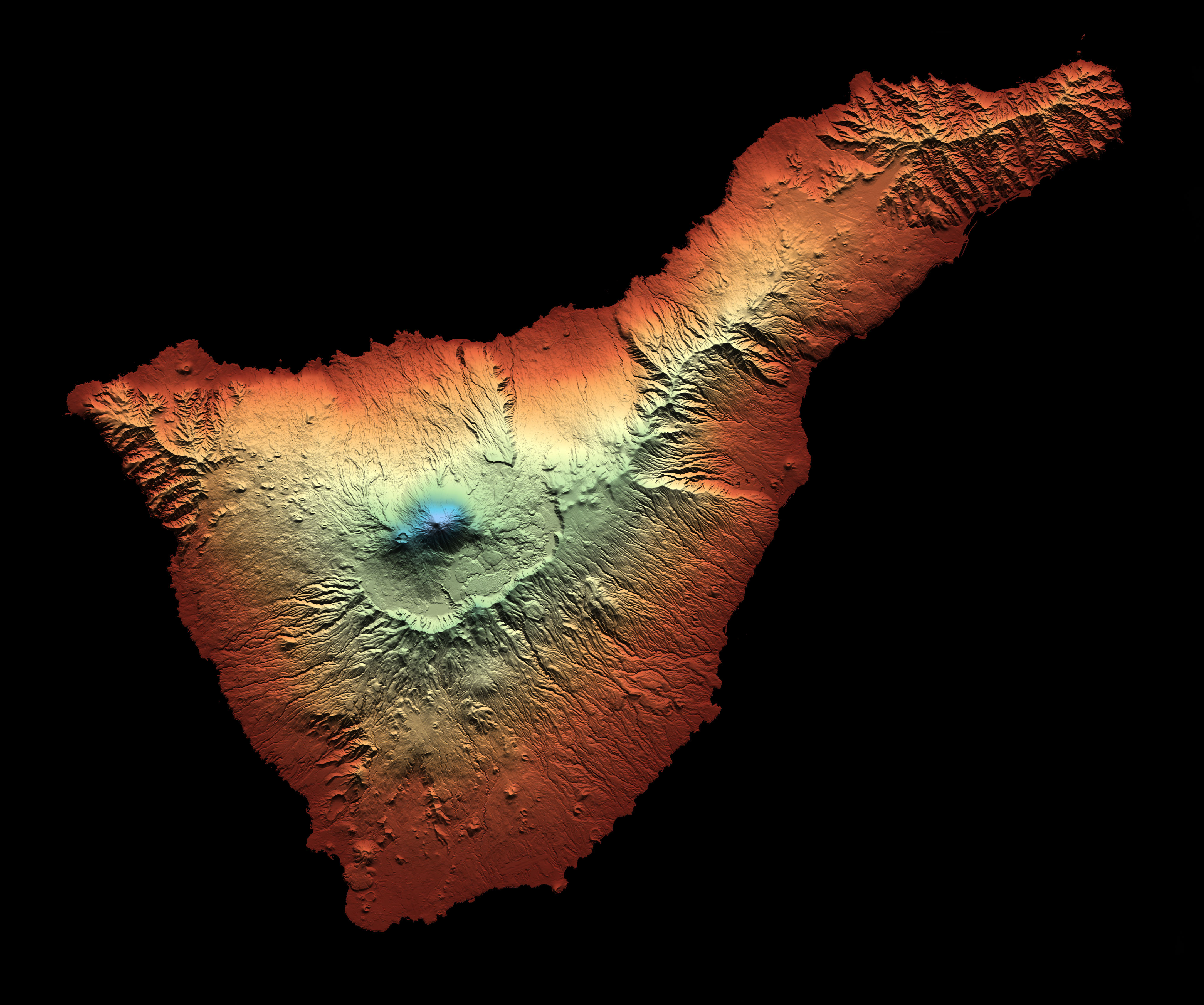 The image represents the relief of Tenerife processed with the QGIS geographic information system. It was made from a digital LiDAR elevation model (CNIG, CC-BY) applying a self-developed multidirectional synthetic shading algorithm and a hypsometric color palette where the highest elevation, Teide, appears in bluish tones; the sea is shown in black. This type of elaboration shows the relief more efficiently than the conventional shading and with a resolution that only depends on the cell size of the original DEM (25 m in this case). The process was carried out at the CMPLab of the University Center of Mérida, Spain.